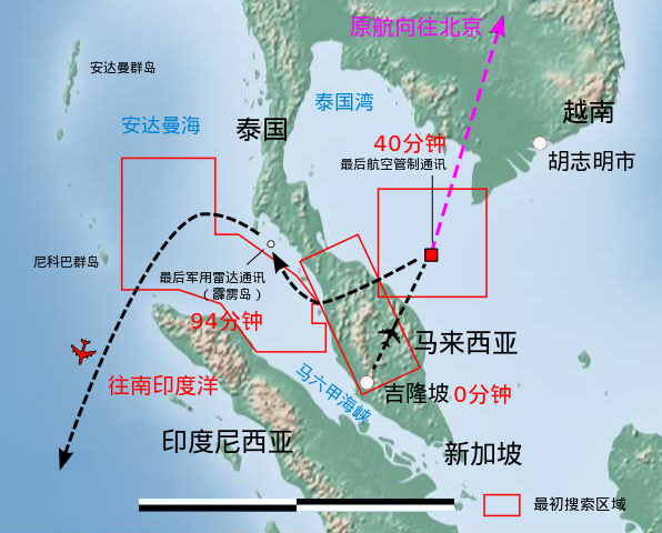 March 25, 2014 - Possible flight path of Malaysia Airlines Flight 370 (Simplified Chinese)